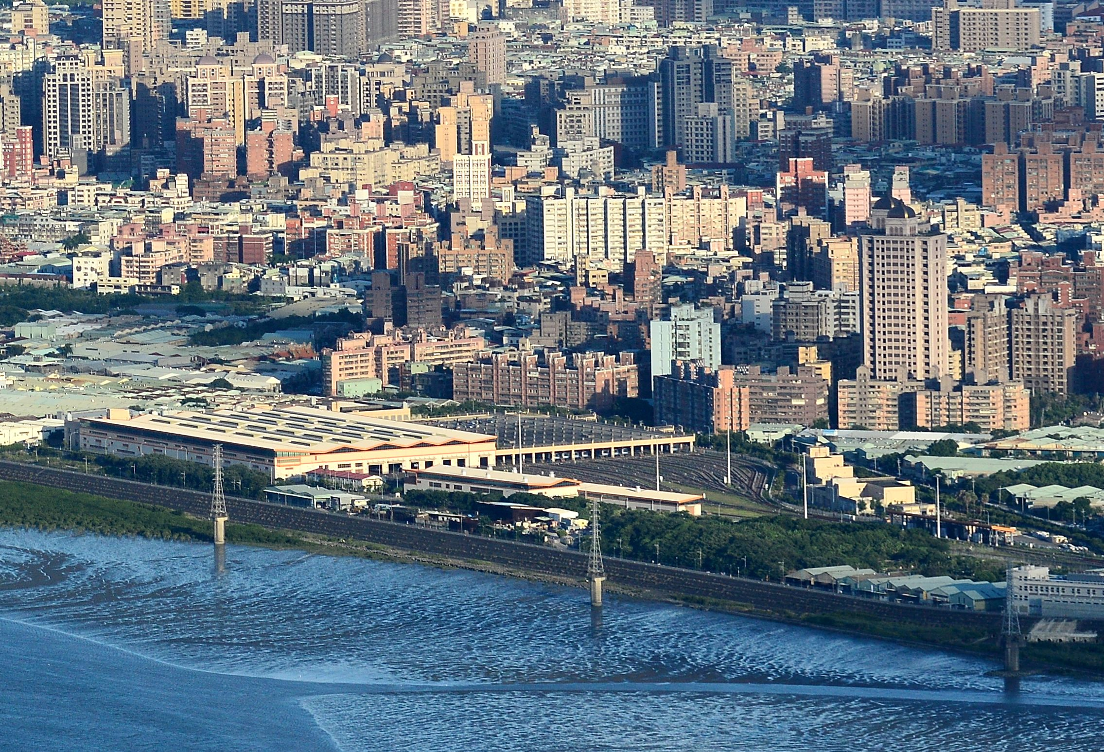 Luzhou Depot, Taipei Metro